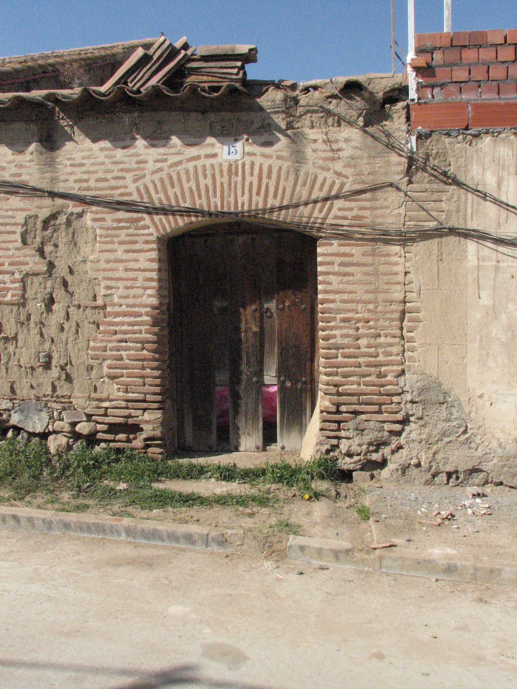 "Please translate". Santo Tomé de Zabarcos. Ávila. España.